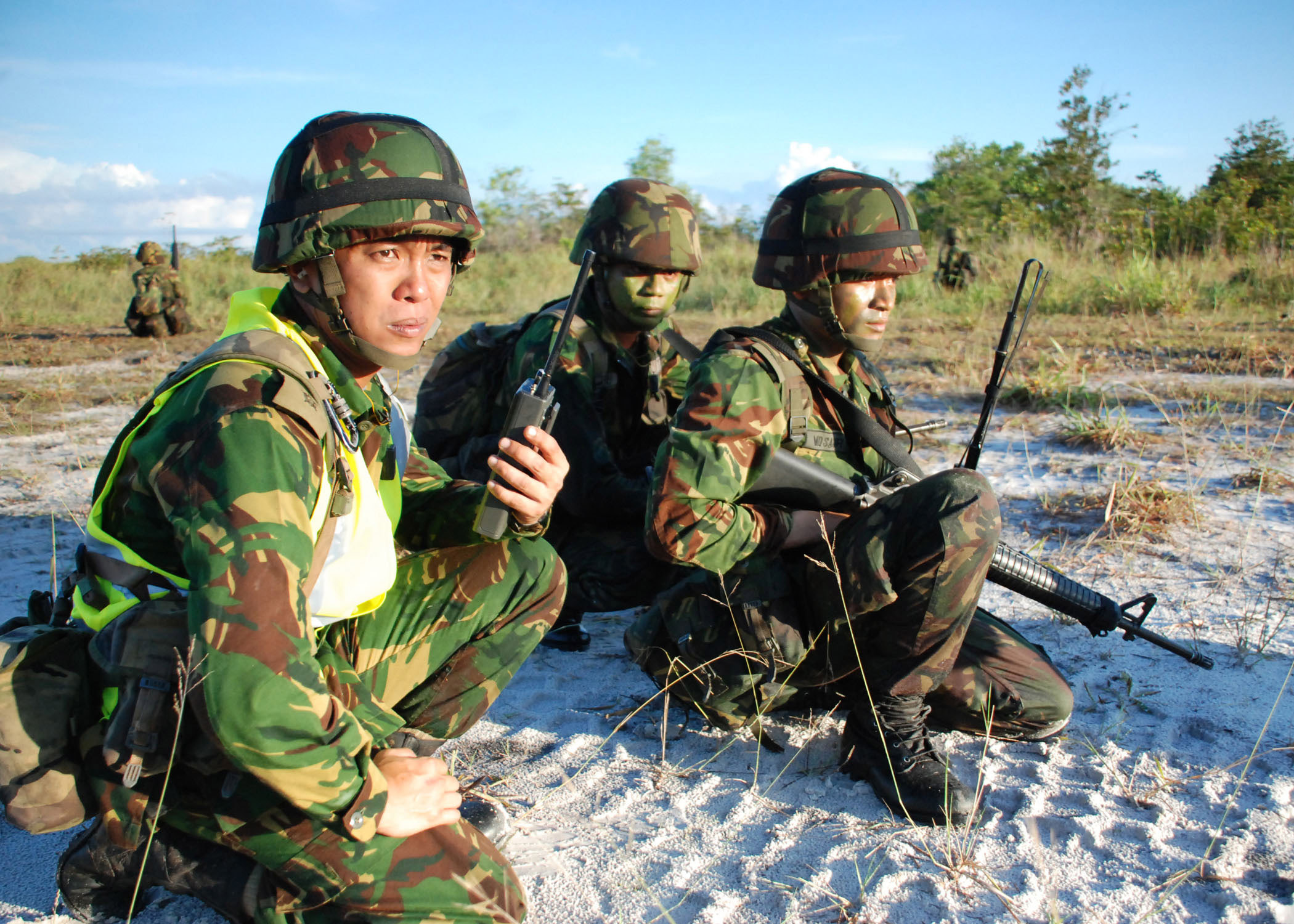 Royal Brunei Land Force soldiers and U.S. Marines advance on a target during an early morning large-scale, integrated live-fire amphibious landing, as part of Cooperation Afloat Readiness and Training (CARAT) Brunei 2010. CARAT is an annual bilateral exercise entering its 16th year in Southeast Asia.